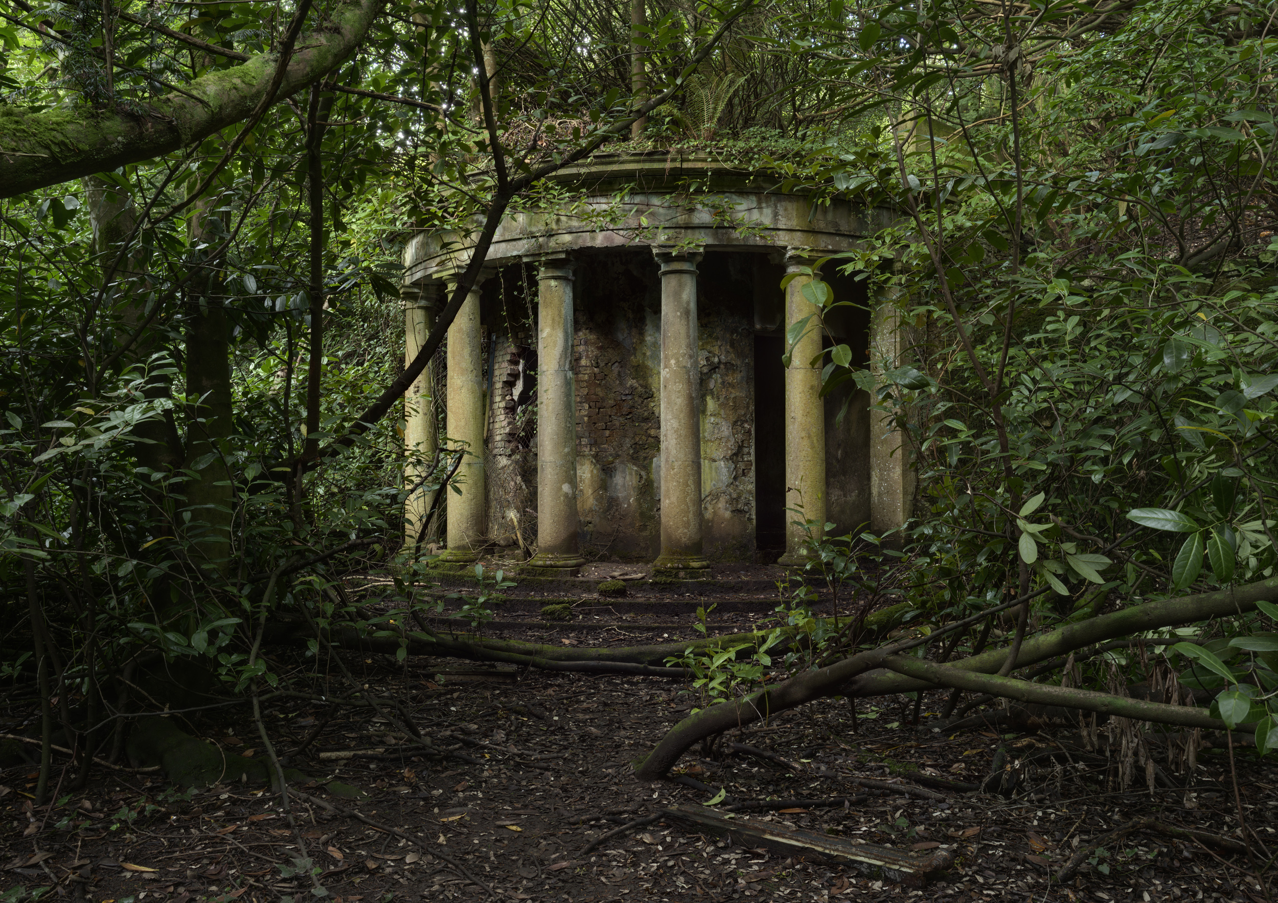 Viewing platform and colonnade in the overgrown grounds of the Baron Hill Estate. Beaumaris, Anglesey.